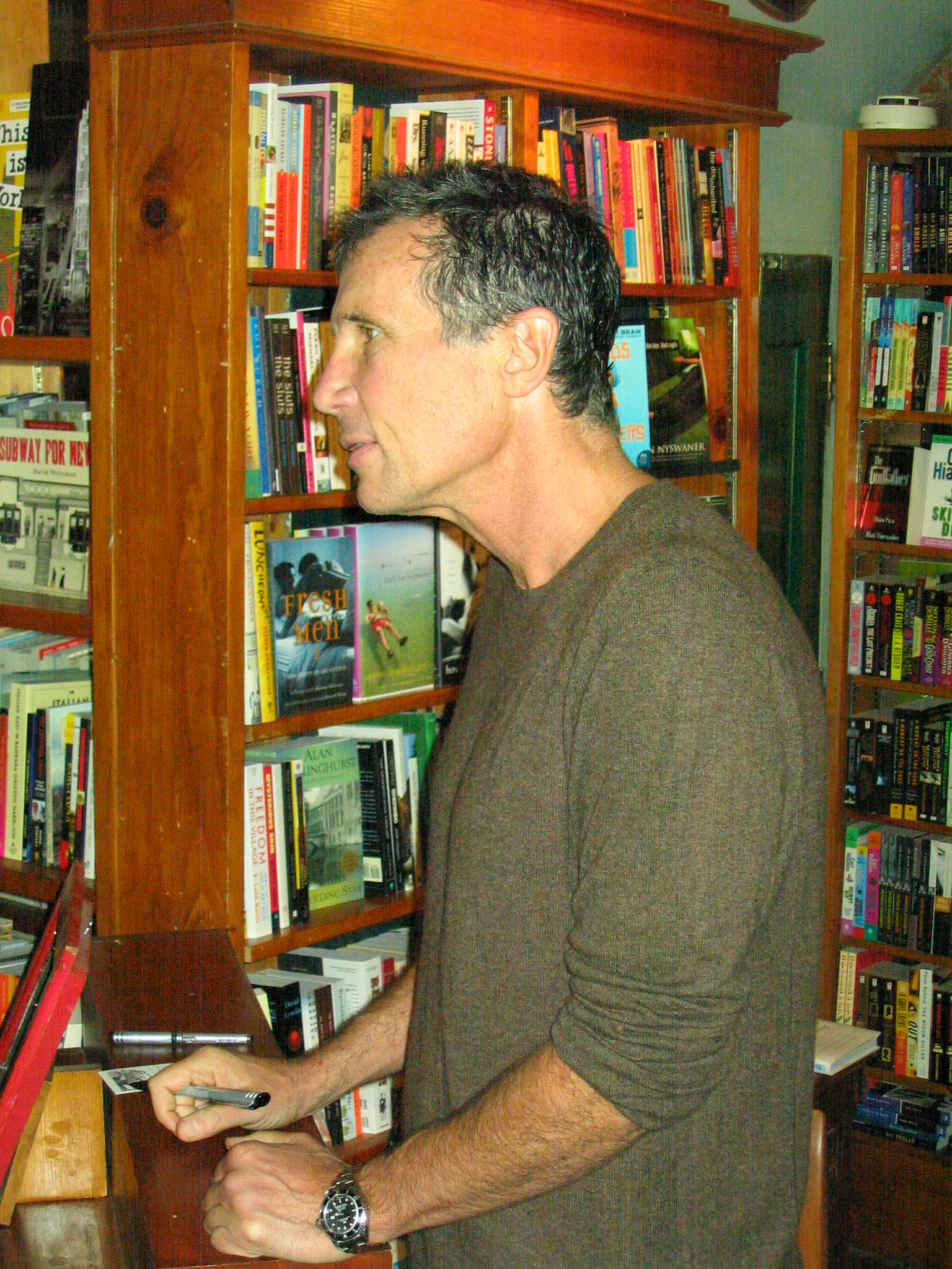 Author Michael Cunningham signing in a NYC bookstore, Oct. 2005.